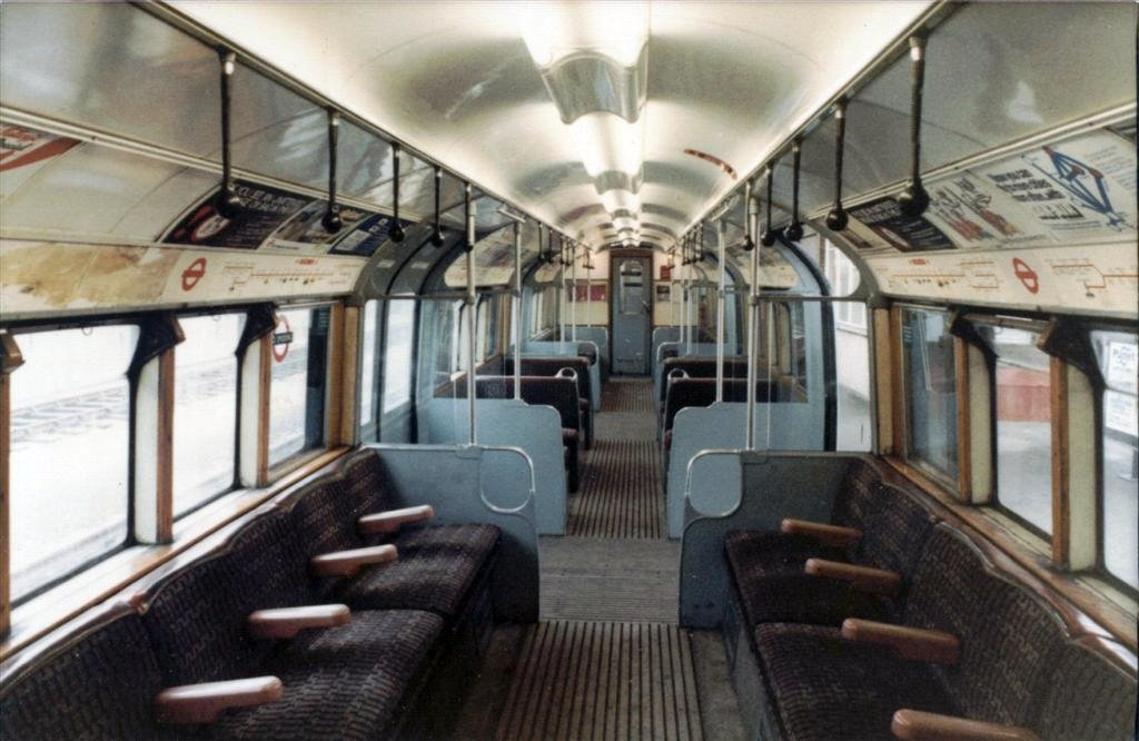 See where this picture was taken. [?]